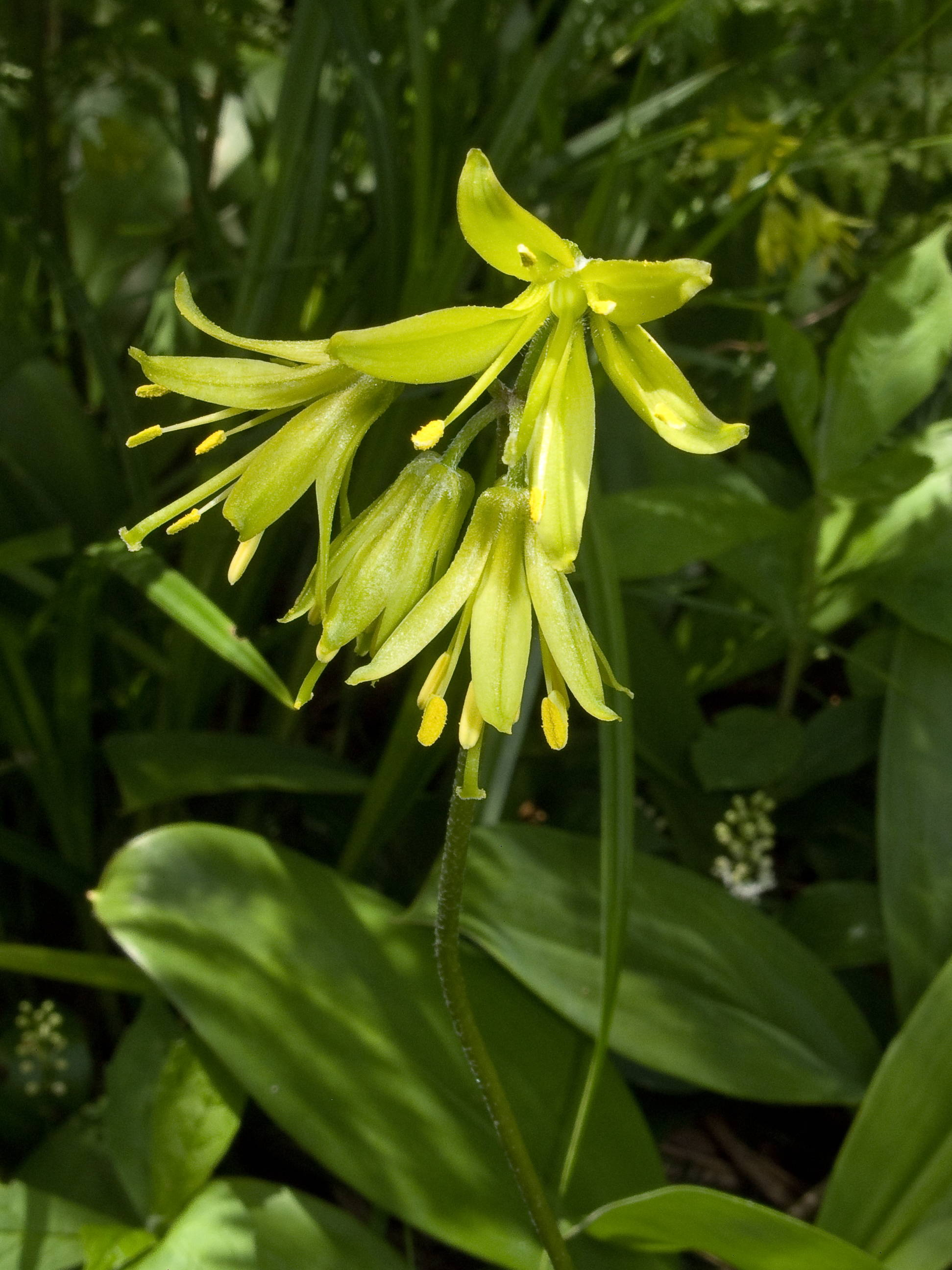 Clintonia borealis, woodland at the summit of Mt Tremblant, Quebec, Canada